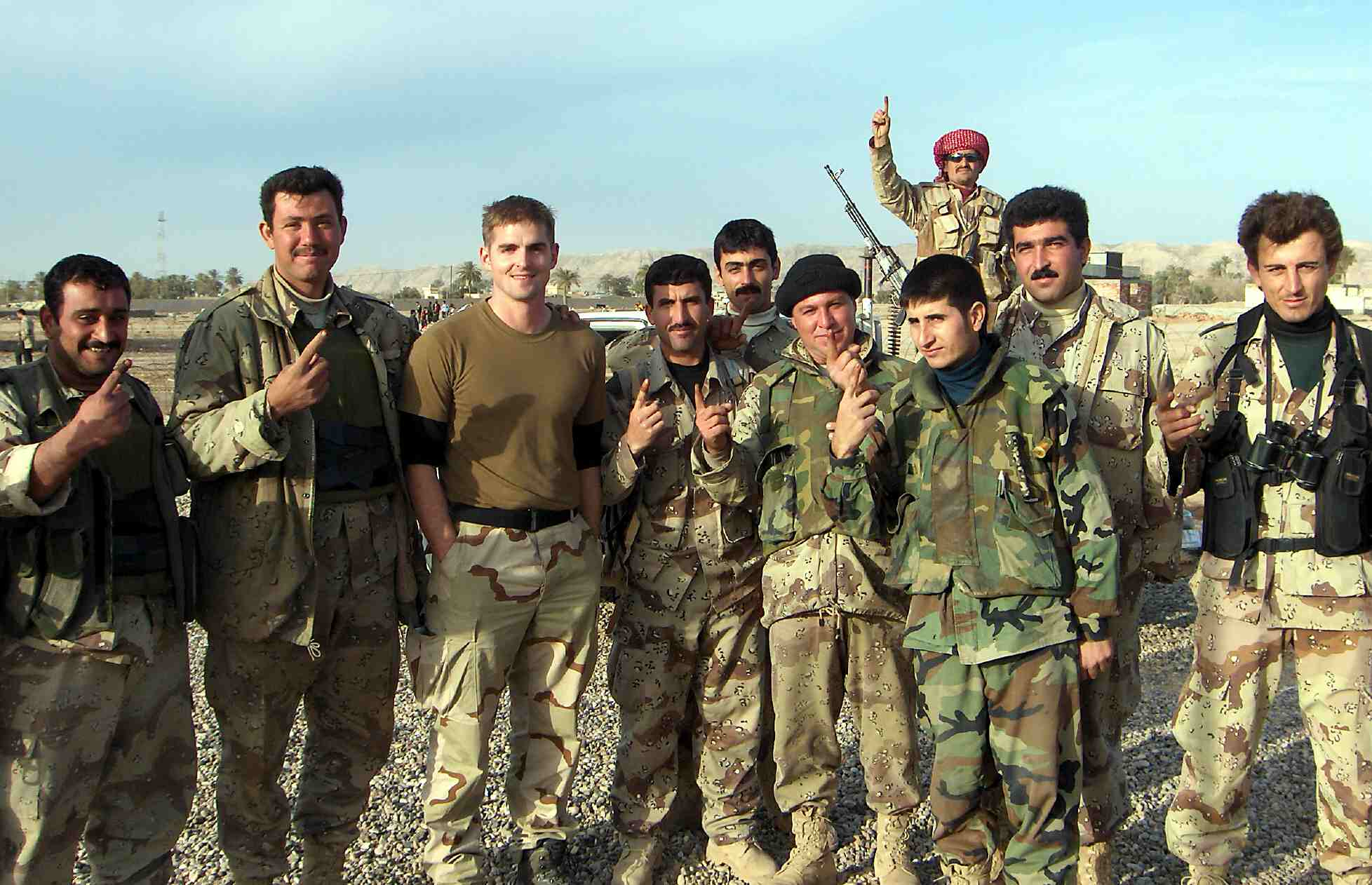 A picture of Tommy Sowers in Iraq